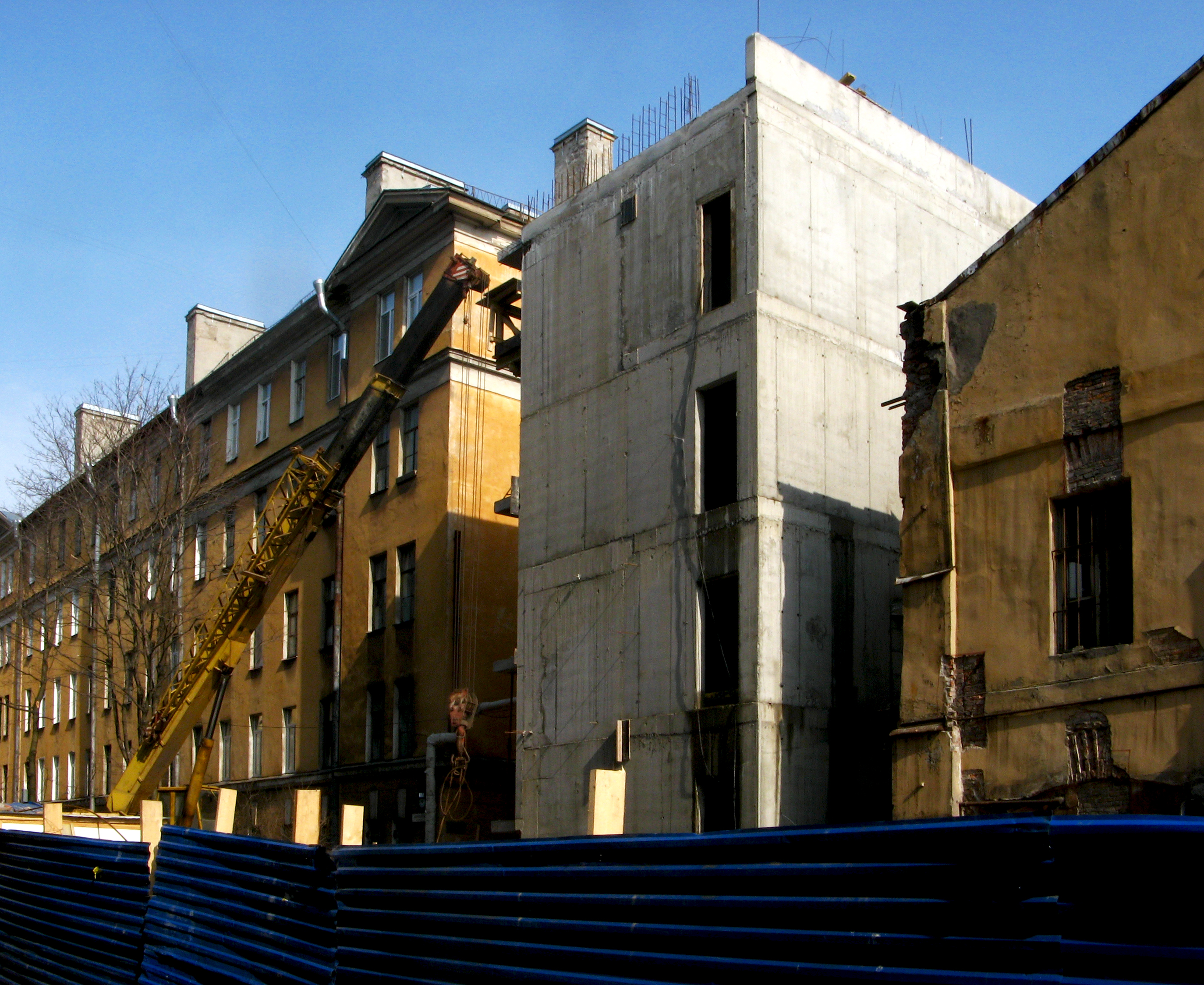 Building under construction, extending of the Library of the Russian Academy of Sciences, Vasilievsky Island, Saint-Petersburg, Russia.